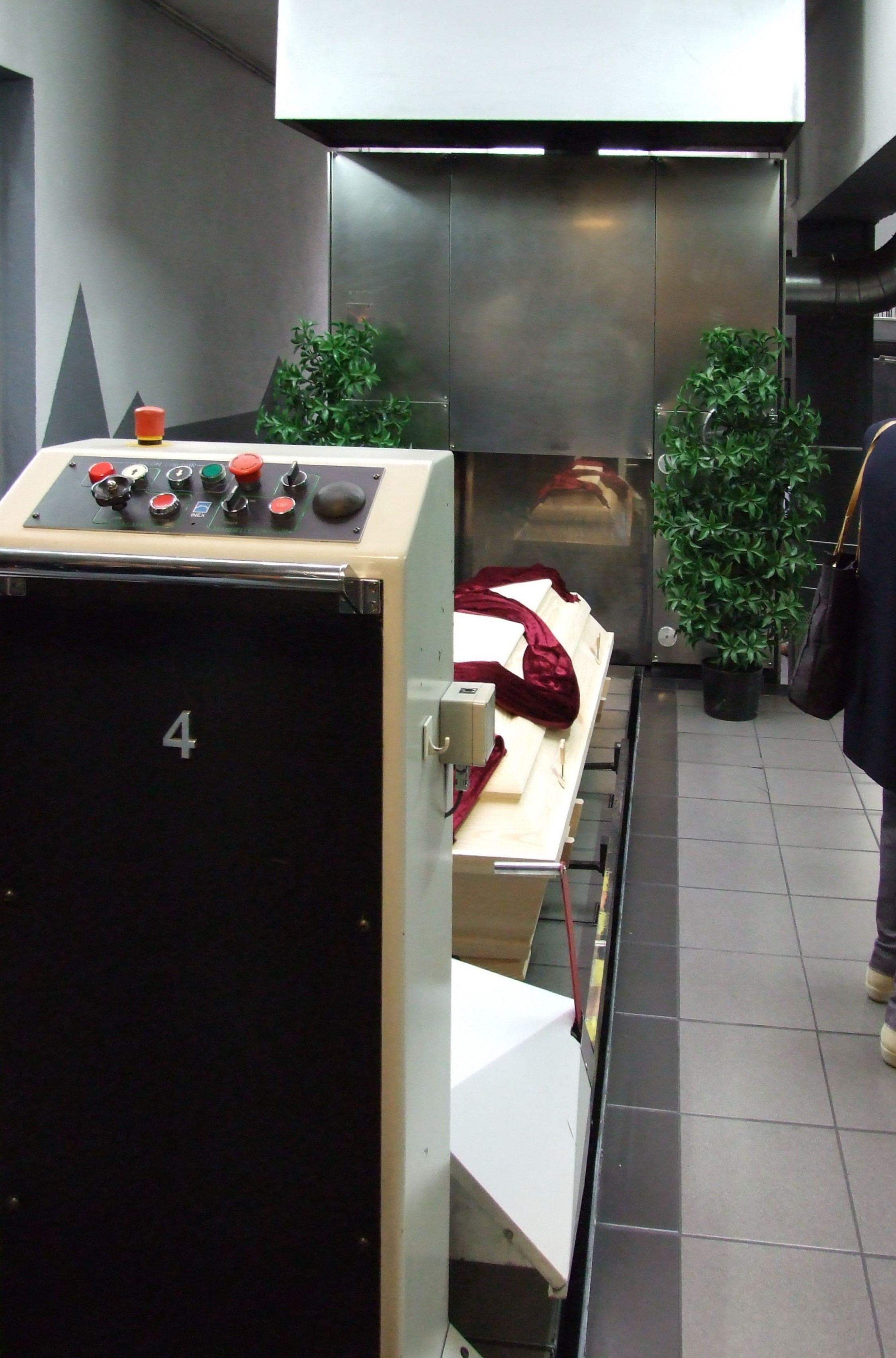 Front of a crematory furnace, located on the main cemetery of Frankfurt am Main, Germany